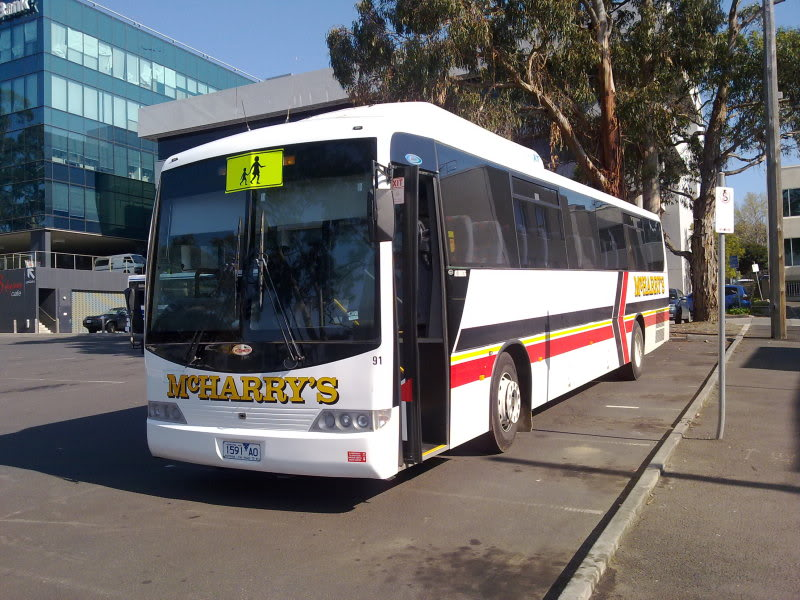 McHarrys Buslines #91 (Mercedes-Benz OH1830, Mills Tui "Orbit").